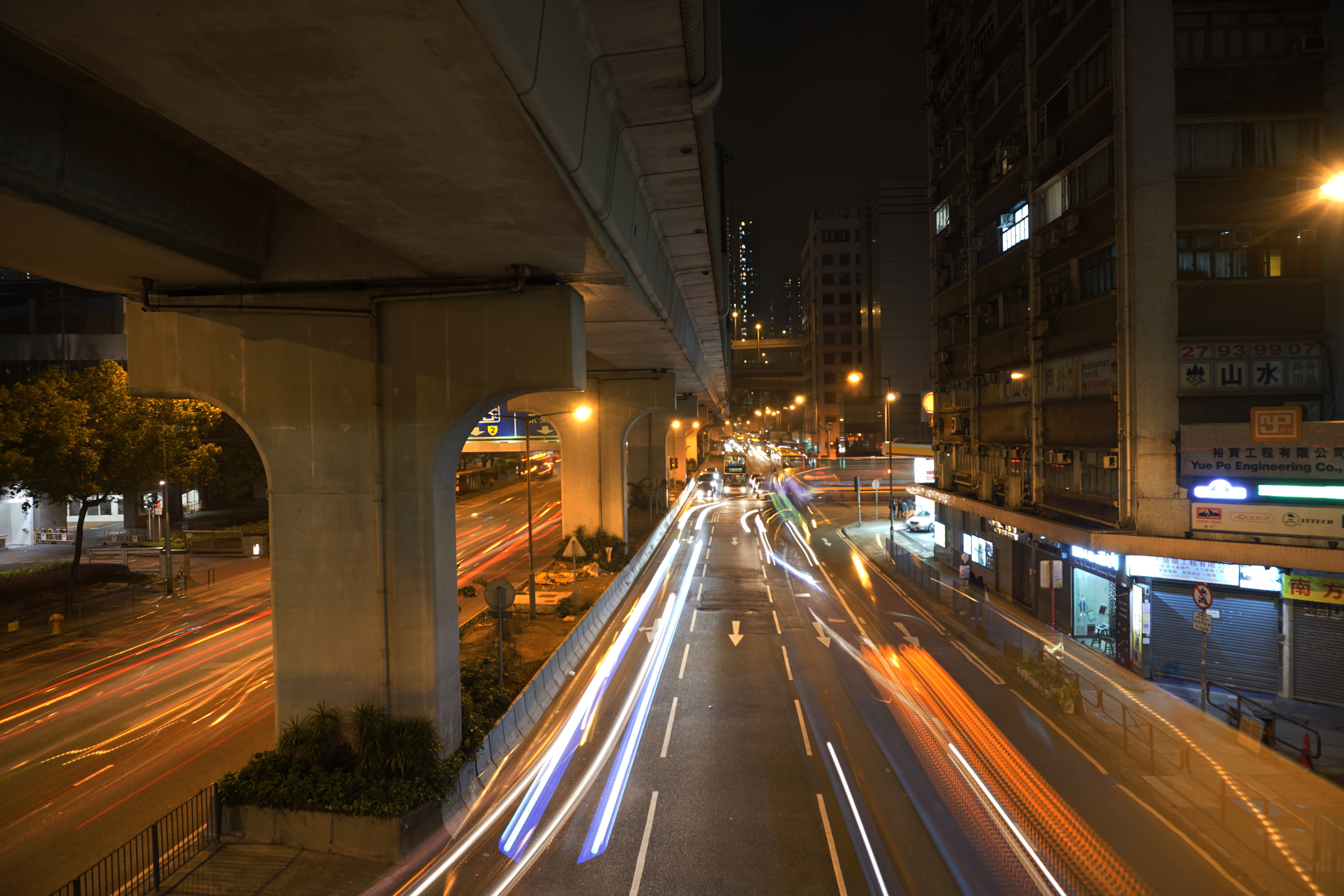 Lei Yue Mun Road in Kwun Tong, Hong Kong.